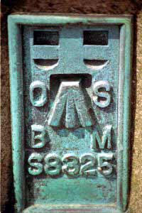 The benchmark on the side of the triangulation pillar (trig. point) on Yr Eifl, north Wales. Taken by Chris Dixon in 2000.